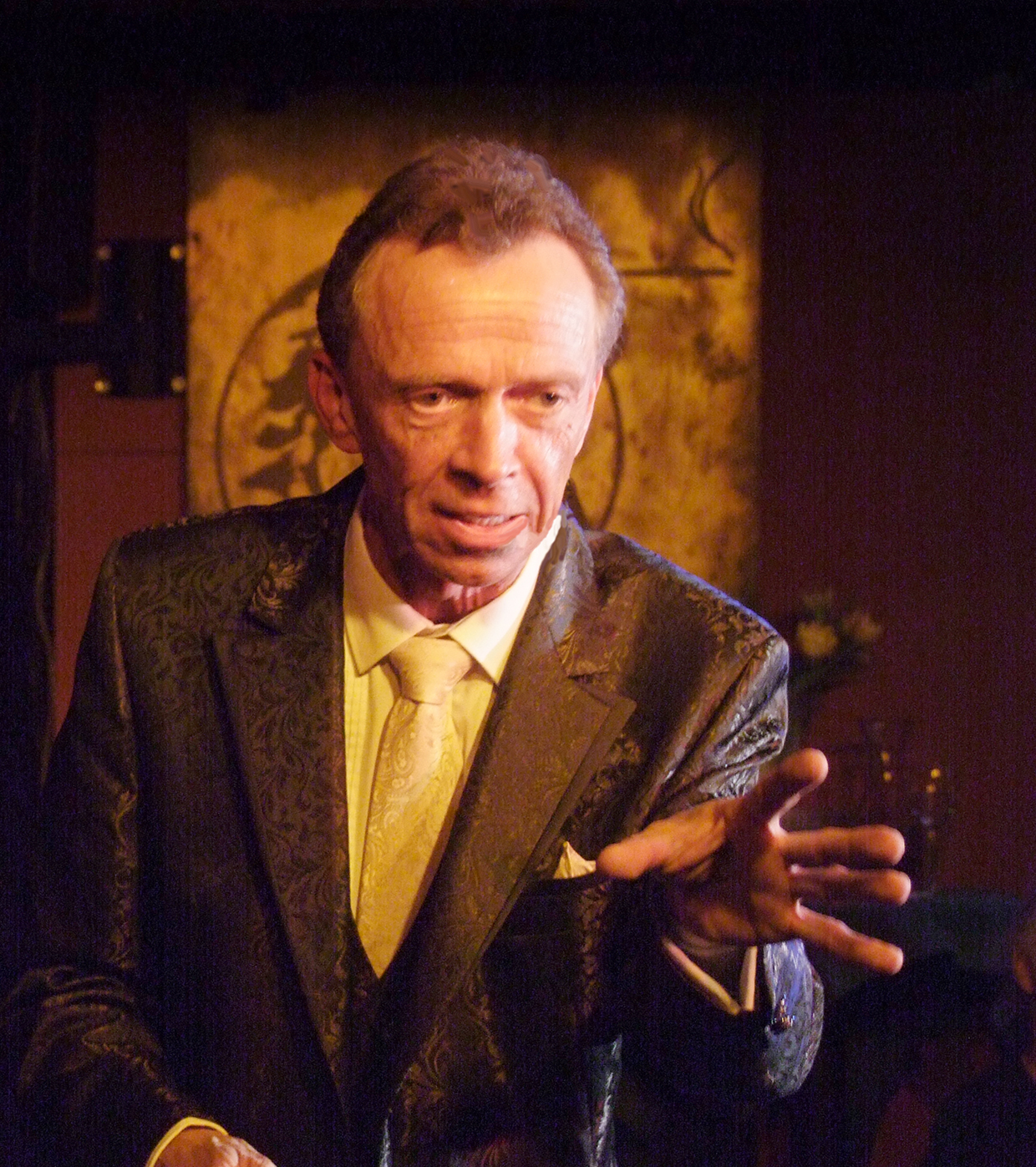 jan_forster_for_wikipedia